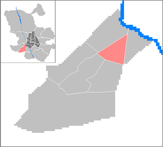 Opañel quarter, in Carabanchel, Madrid